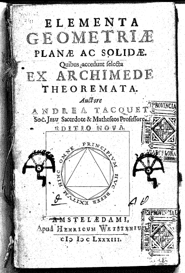 First page of Euclid's Elements edited by André Tacquet (1683)